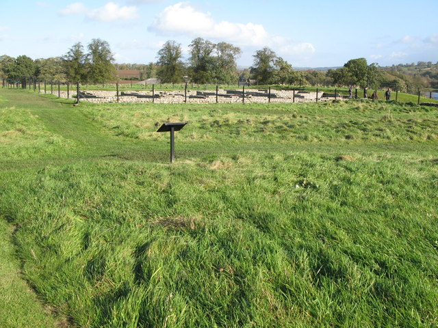 (The site of) Turret 27a The English Heritage guide to Chesters Roman Fort says that "Just to one side of the headquarters building itself, the site if turret 27a ... has been located by excavation. The foundations were laid, and perhaps some of the superstructure built, before the decision was taken to supplant it with the fort, but it had probably not been finished".